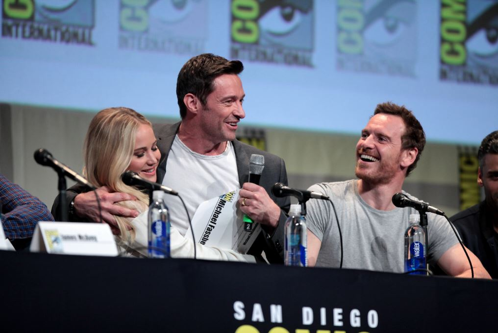 X-Men: Apocalypse Panel at the 2015 Comic-Con International